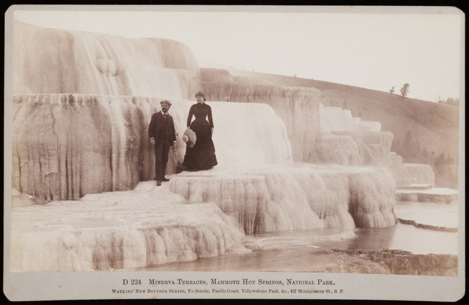 "Minerva Terraces, Mammoth Hot Springs, National Park," is black-and-white view of the Minerva Hot Springs at Yellowstone National Park, taken by photographer Carleton E. Watkins of San Francisco. Image courtesy of the Carroll T. Hobart Papers, Beinecke Rare Book & Manuscript Library, Yale University.